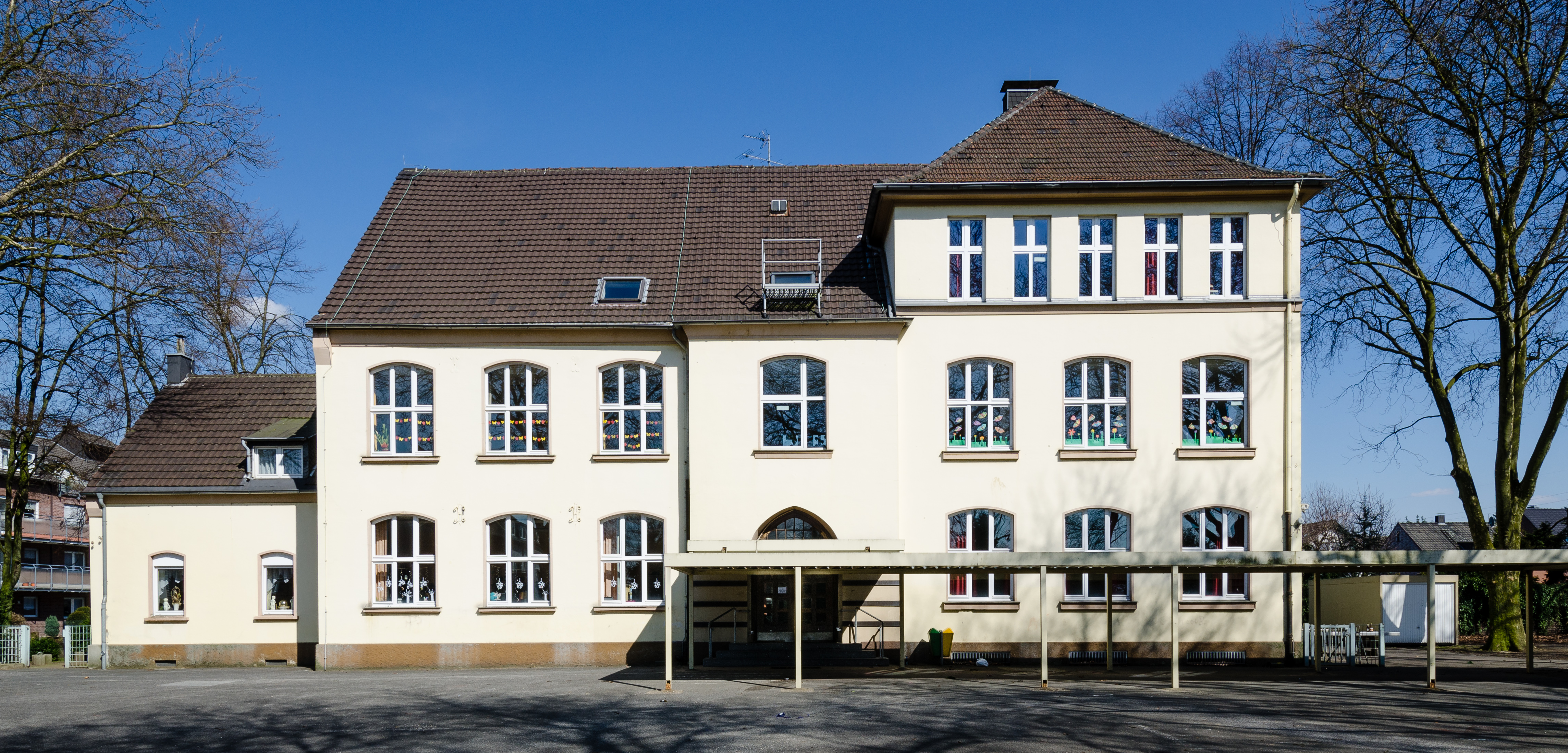 Vennepoth School in Oberhausen